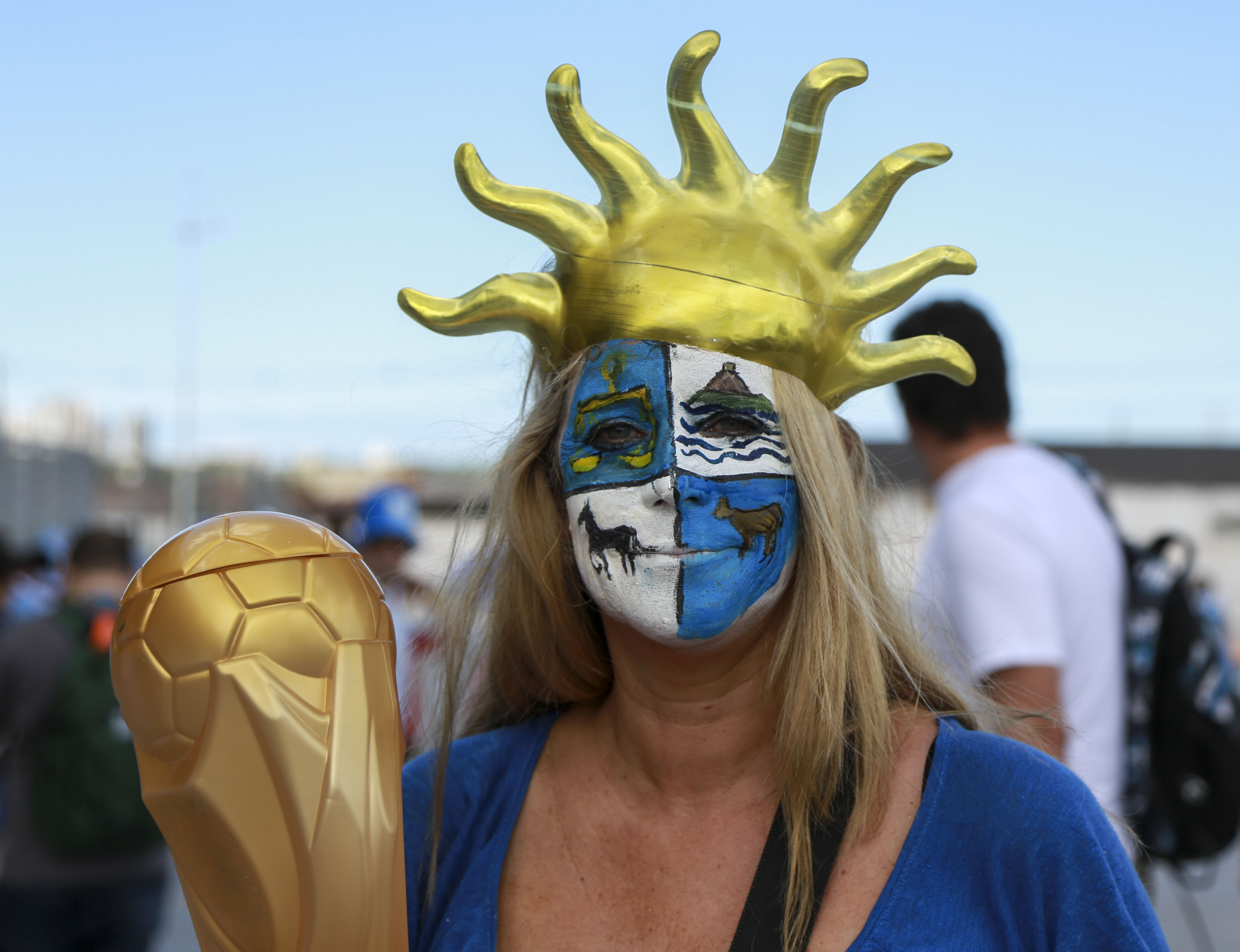 Uruguay - Costa Rica FIFA World Cup 2013 (2014-06-14; fans) 01